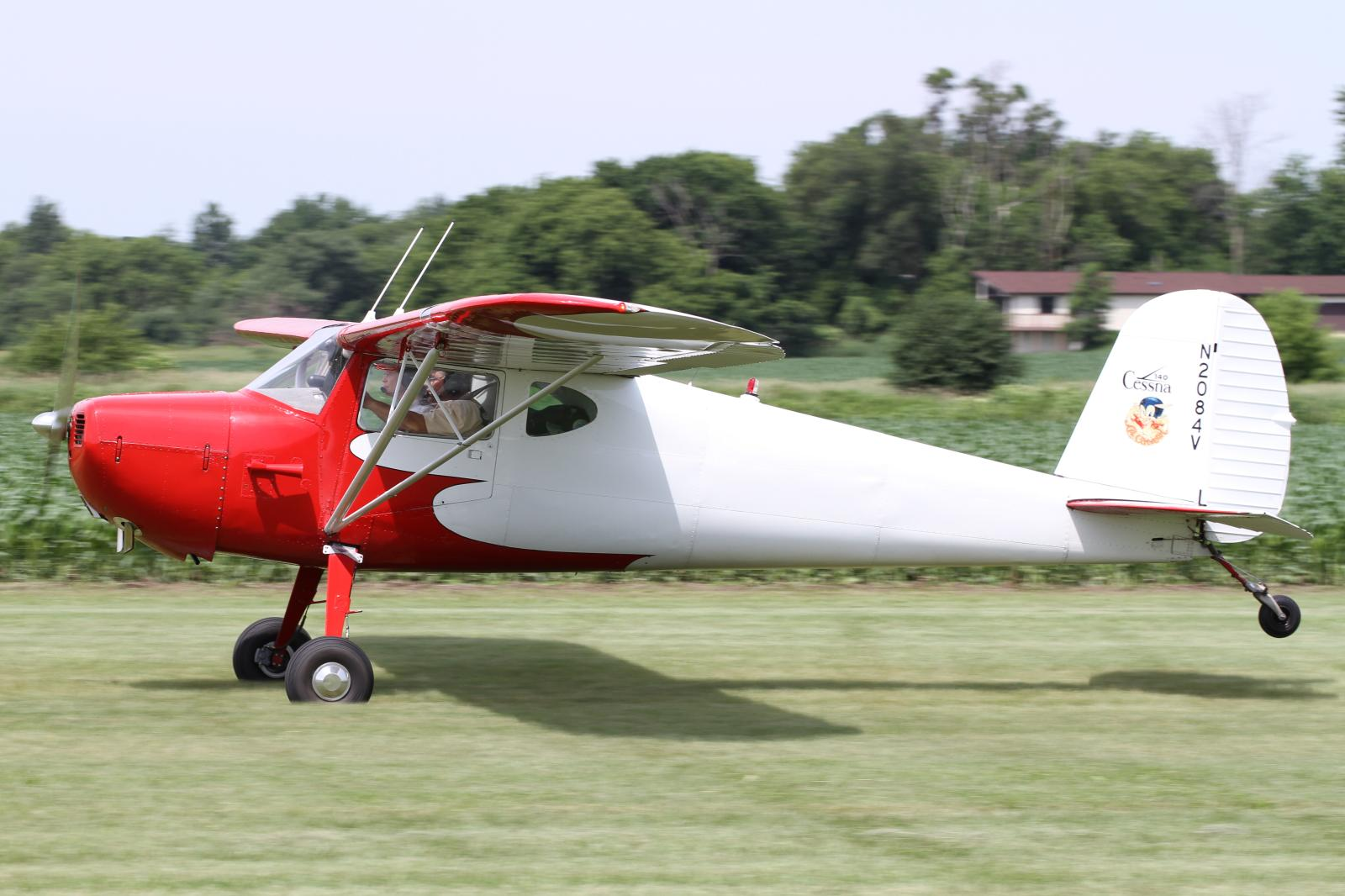 1947 Cessna 140 C/N 14300; Big Foot Fly-In, Walworth, Wisconsin, June 25th 2011